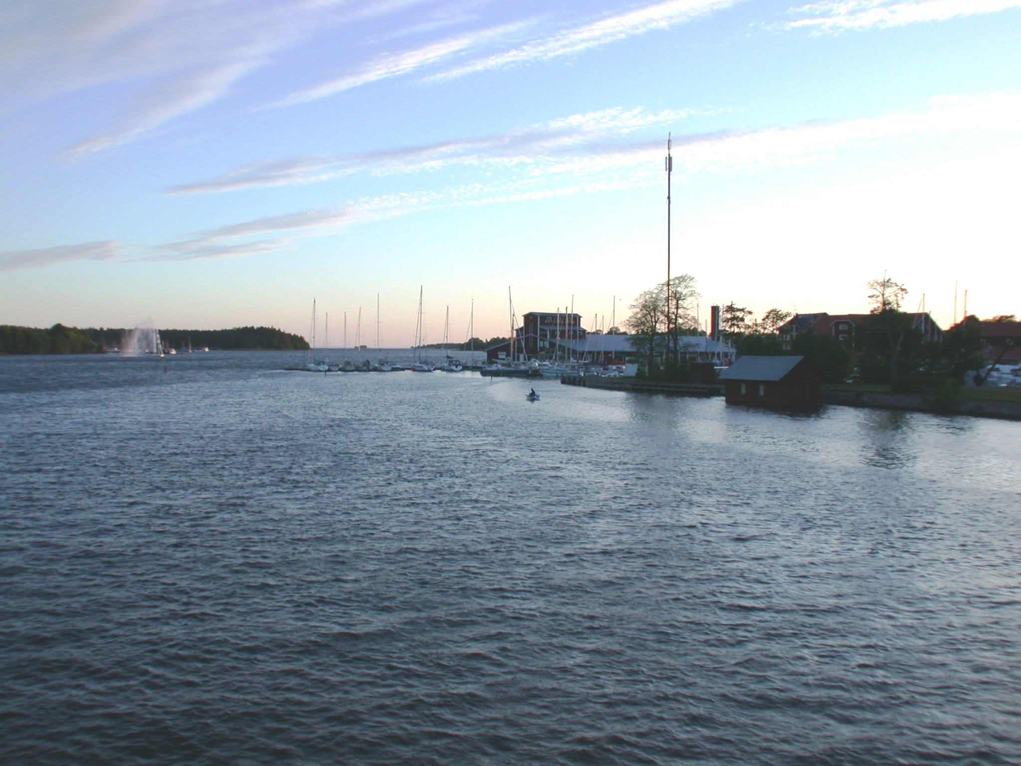 Motala ström (Motala stream), Motala, Sweden. Photo by (WT-shared) Riggwelter, July 13, 2006. Was in category Motala on wikivoyage